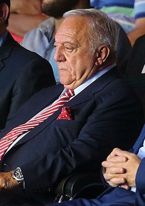 President of the International Weightlifting Federation in Tehran during 1st International Fajr Cup.